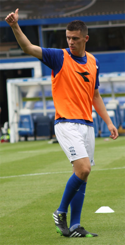 Callum Reilly vs Hull City in Birmingham City pre-season 2013.